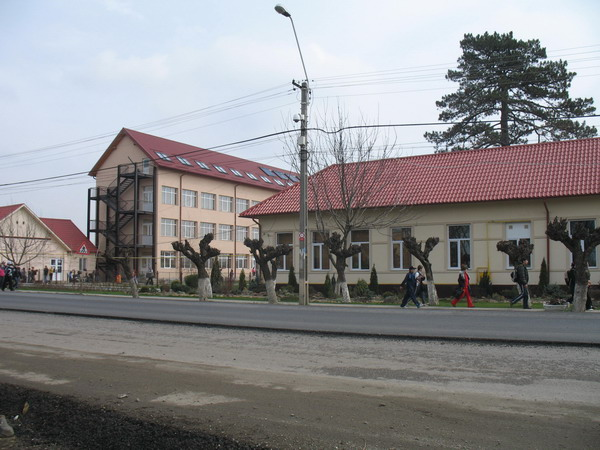 The New Elementary School in Dumbravita